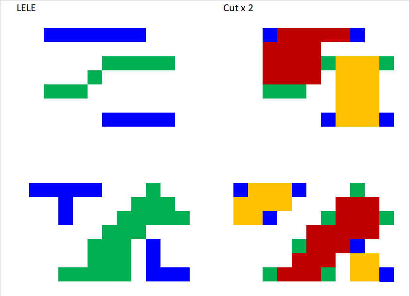 LELE double patterning followed by a cut or blocking mask exposure. Ref.: B. Yu et al., J. Micro/Nanolith. MEMS MOEMS 14, 011002 (2015).